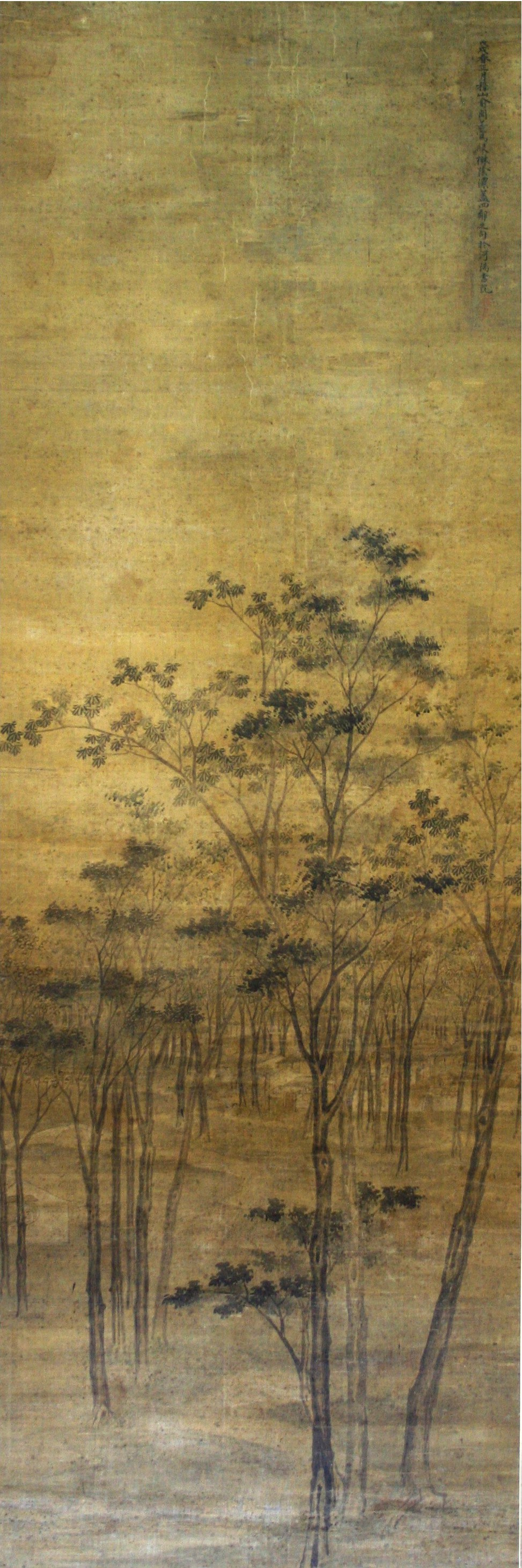 Landscape With Western Influenced Perspective